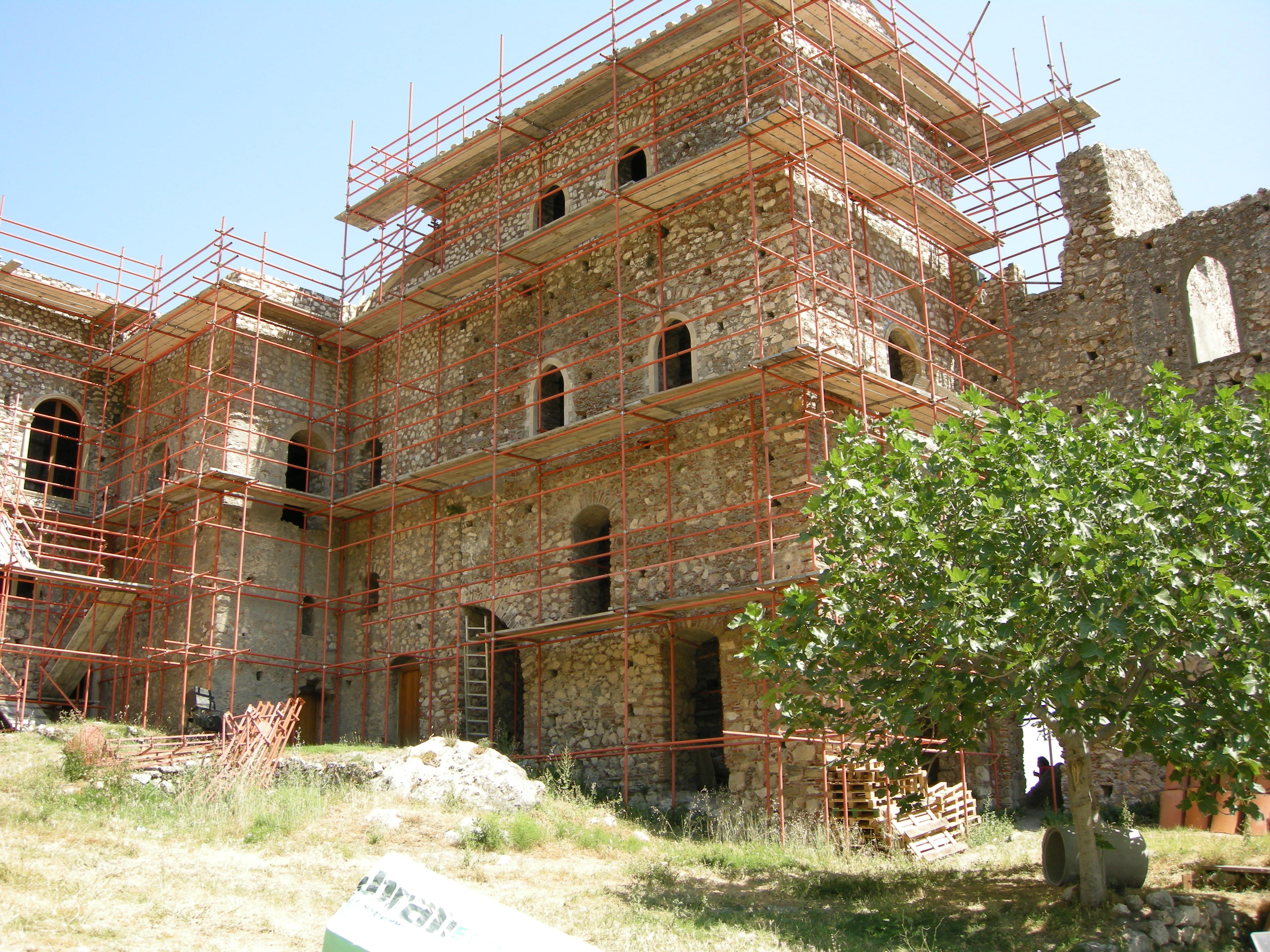 Palaces of mystra